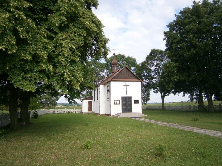 Polish Catholic Church in Turowiec, Poland